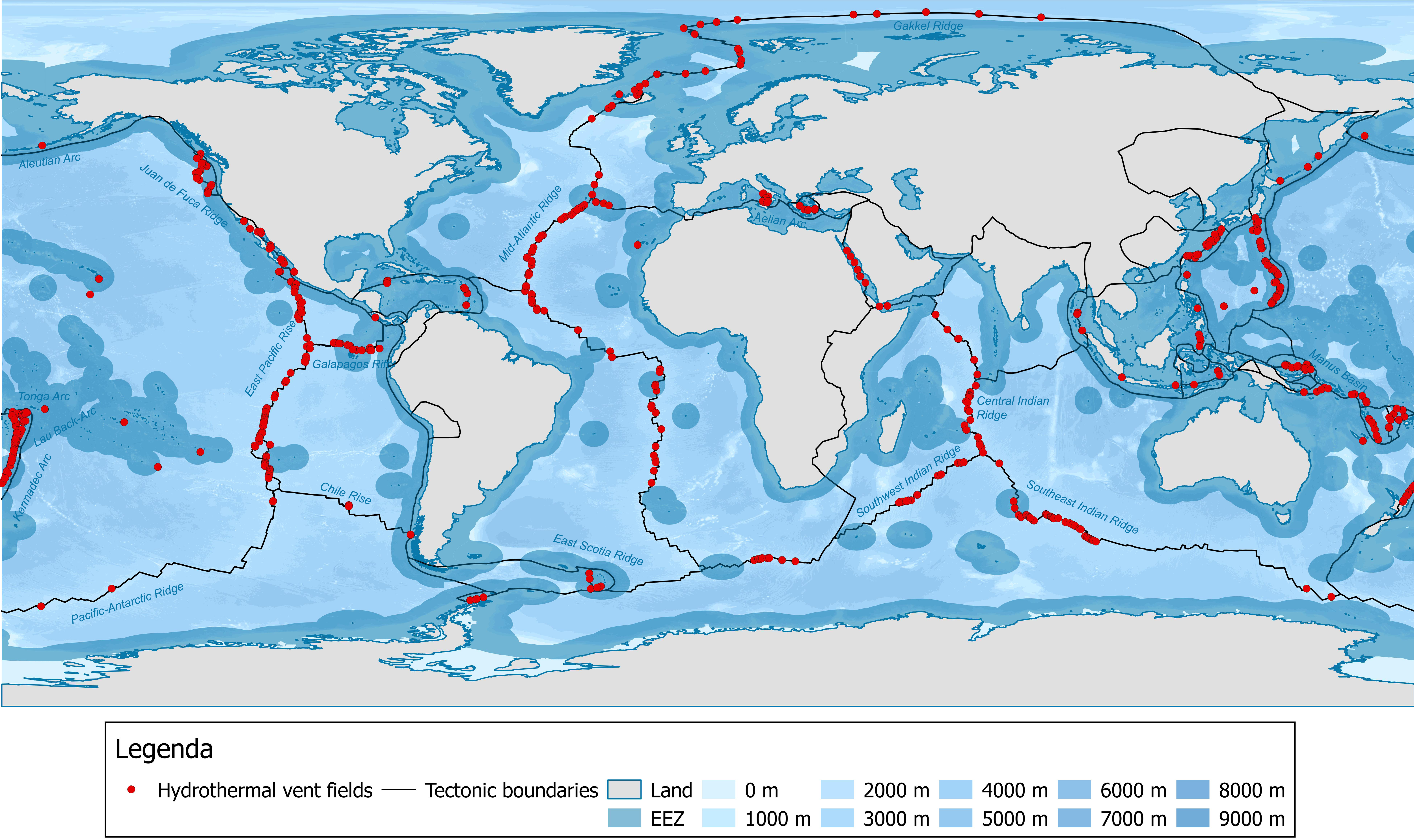 This map was created by making use of the InterRidge ver.3.3 database.